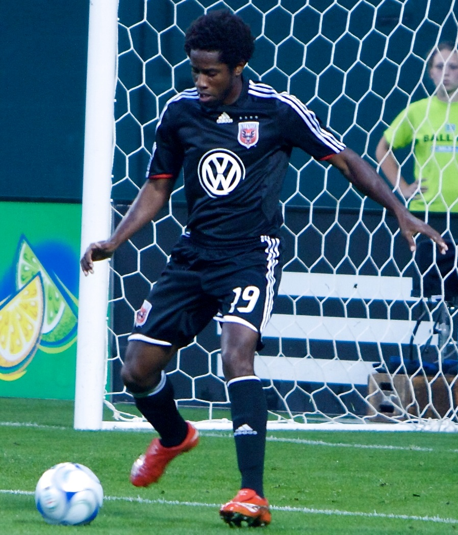 This file has been extracted from another file: Clyde Simms and Zach Wells.jpg